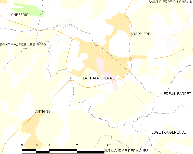 Map of French municipality La Châtaigneraie